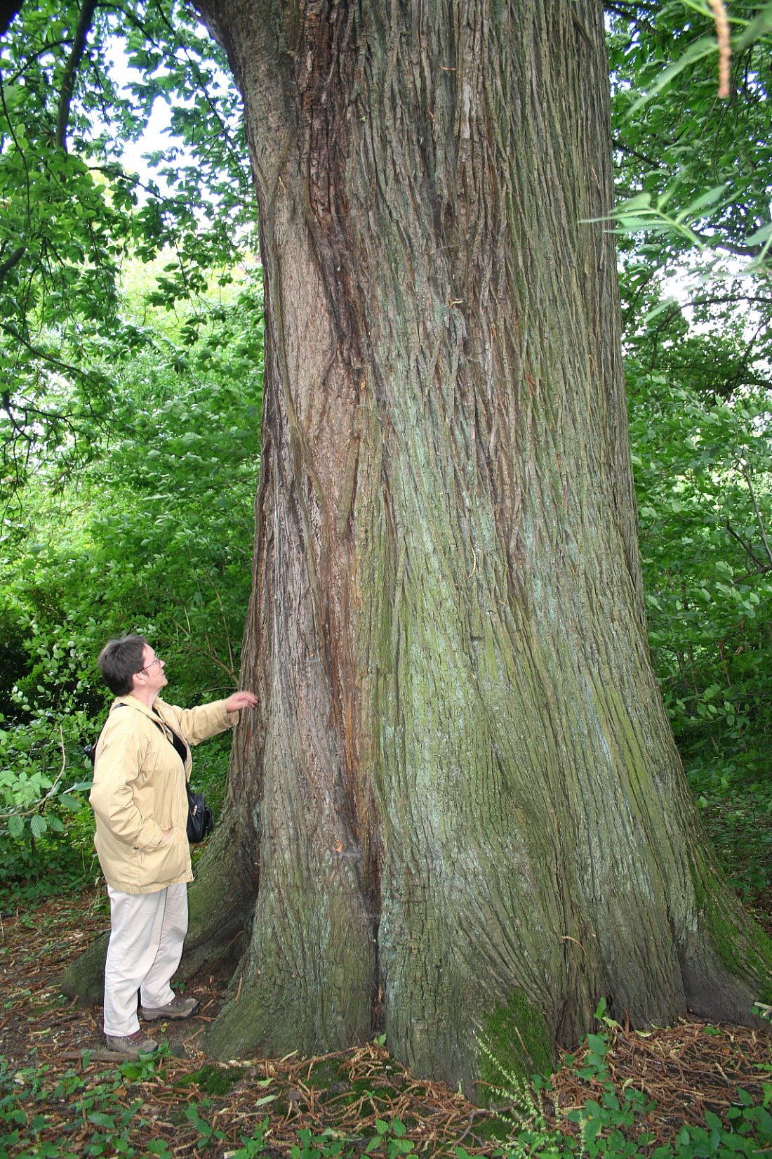 Sweet Chestnut diameter is 611 cm = 20 ft at a height of 1.5 m = 4.9 ft (2007), height of tree is 30 m = almost 100 ft. (2005)